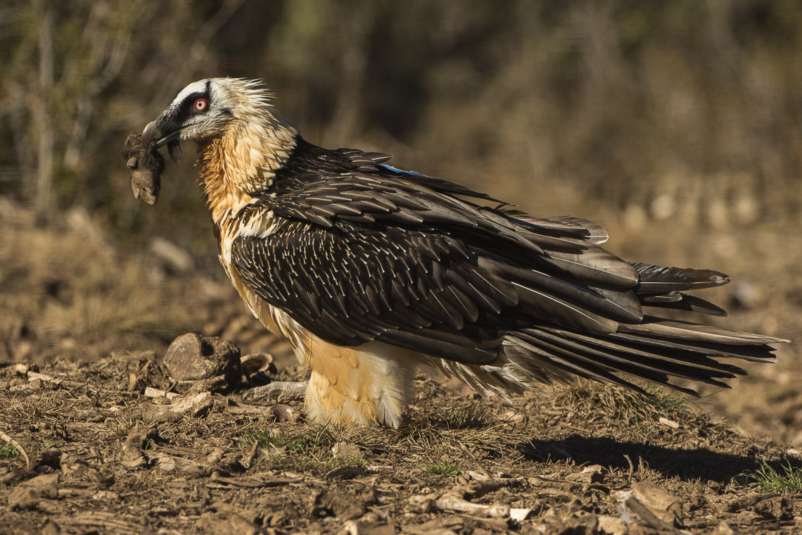 Bearded Vulture with bone - Catalan Pyrenees - Spain